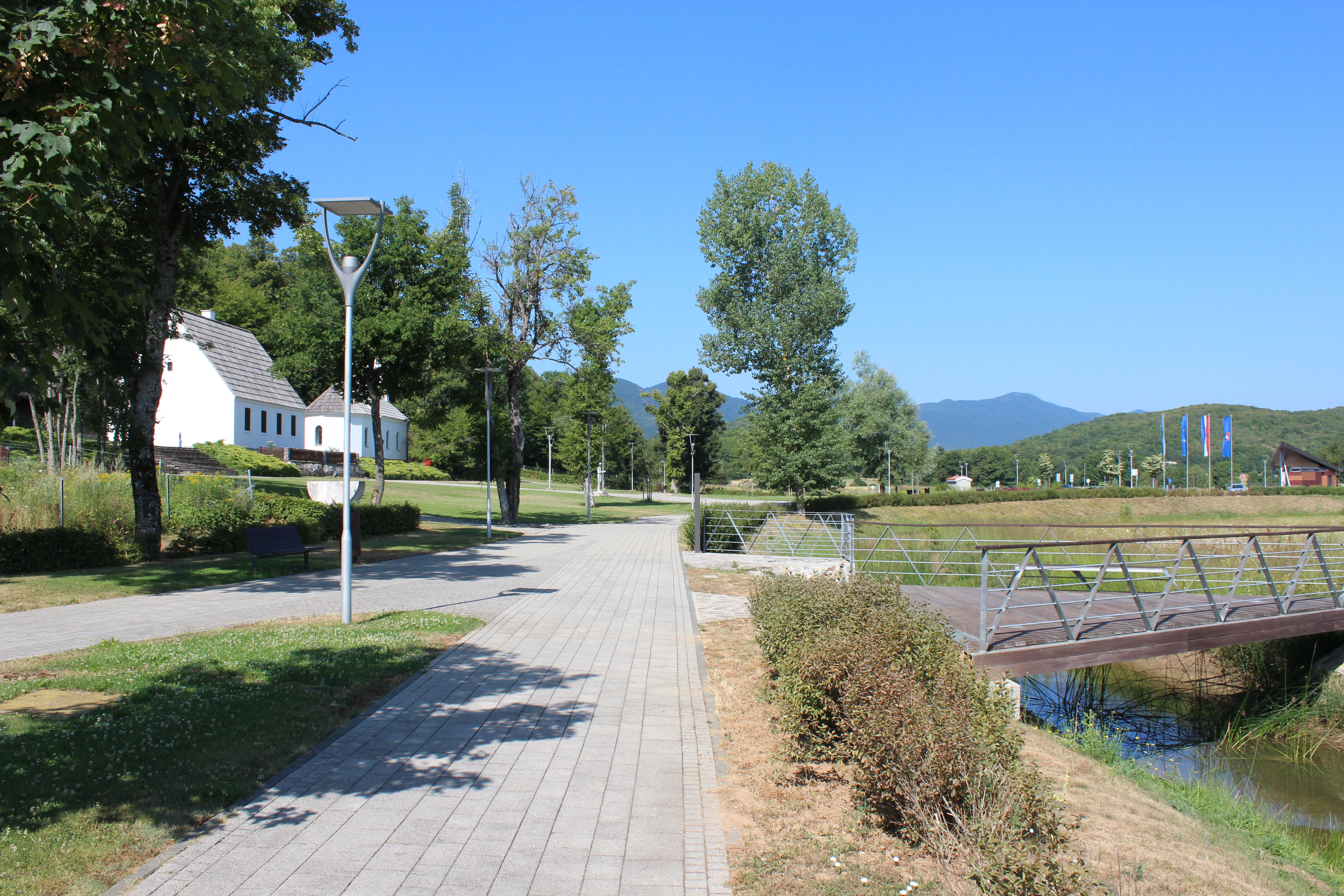 Nikola Tesla Memorial Center (Smiljan, Croatia).